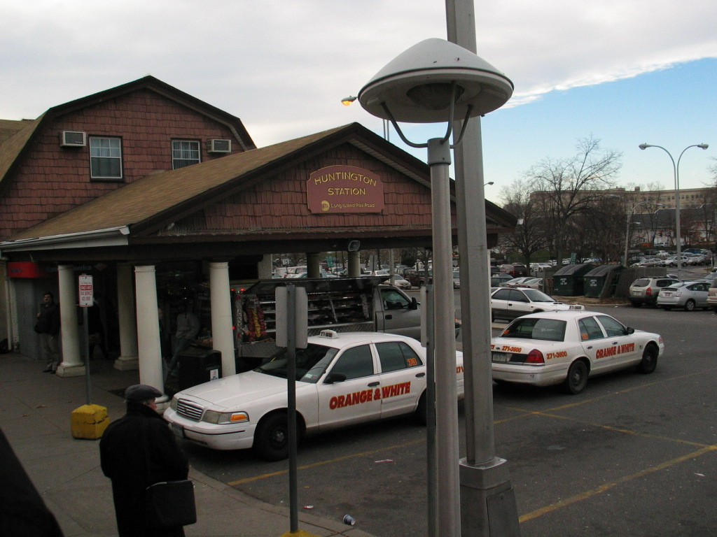 Huntington Station of the Long Island Railroad